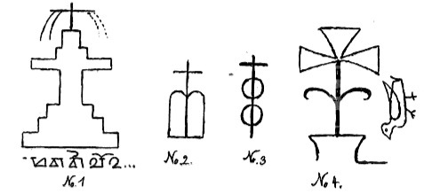 early Christian crosses on rocks in Western Tibet